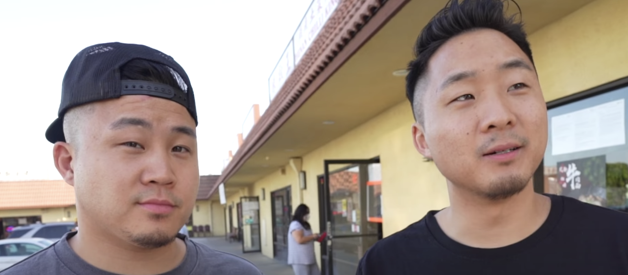 Chinese-American food reviewers The Fung Brothers in a video on their Youtube channel